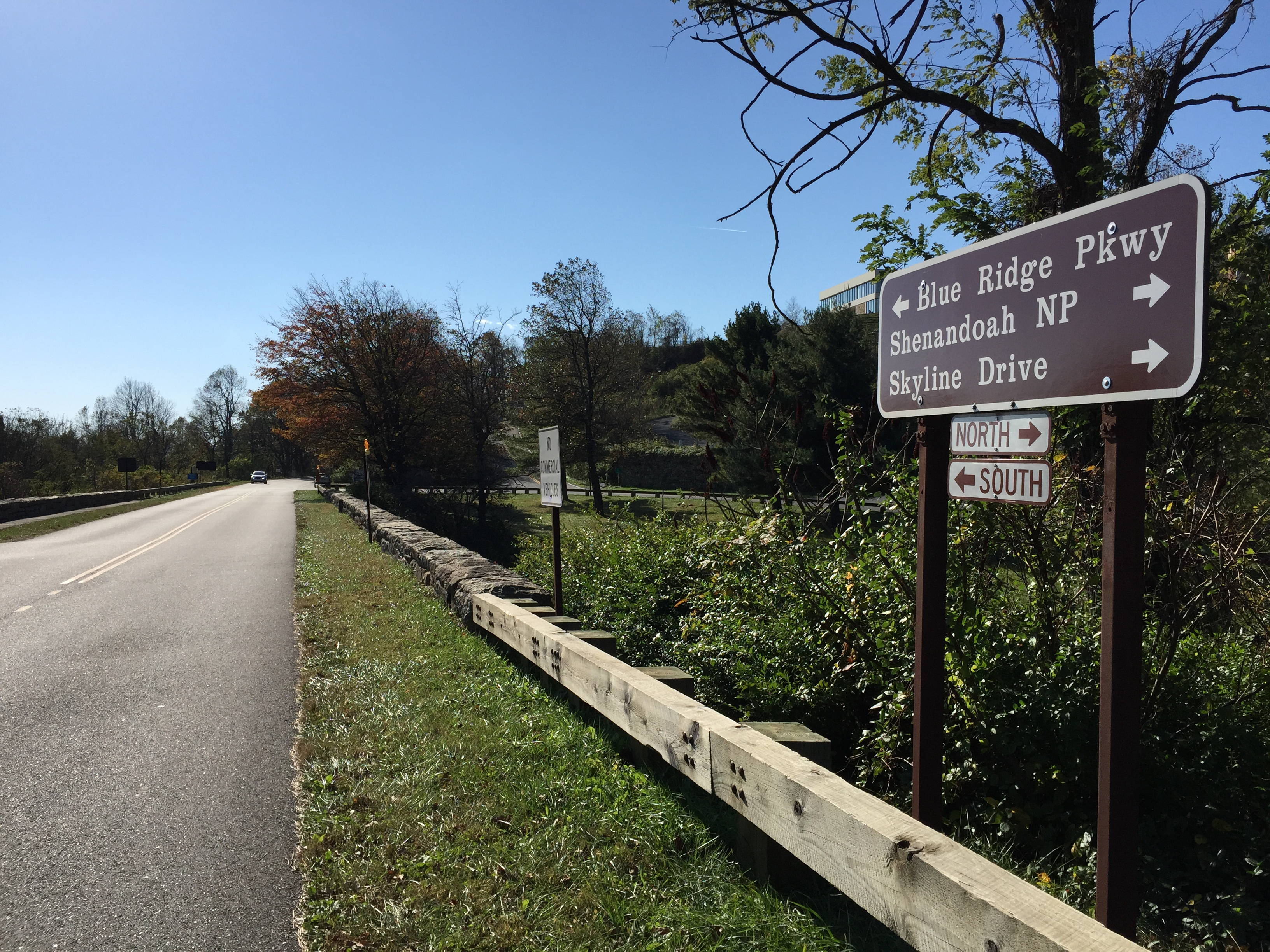 View south at the south end of Shenandoah National Park's Skyline Drive and the north end of the Blue Ridge Parkway in Rockfish Gap on the border of Augusta County, Virginia and Nelson County, Virginia